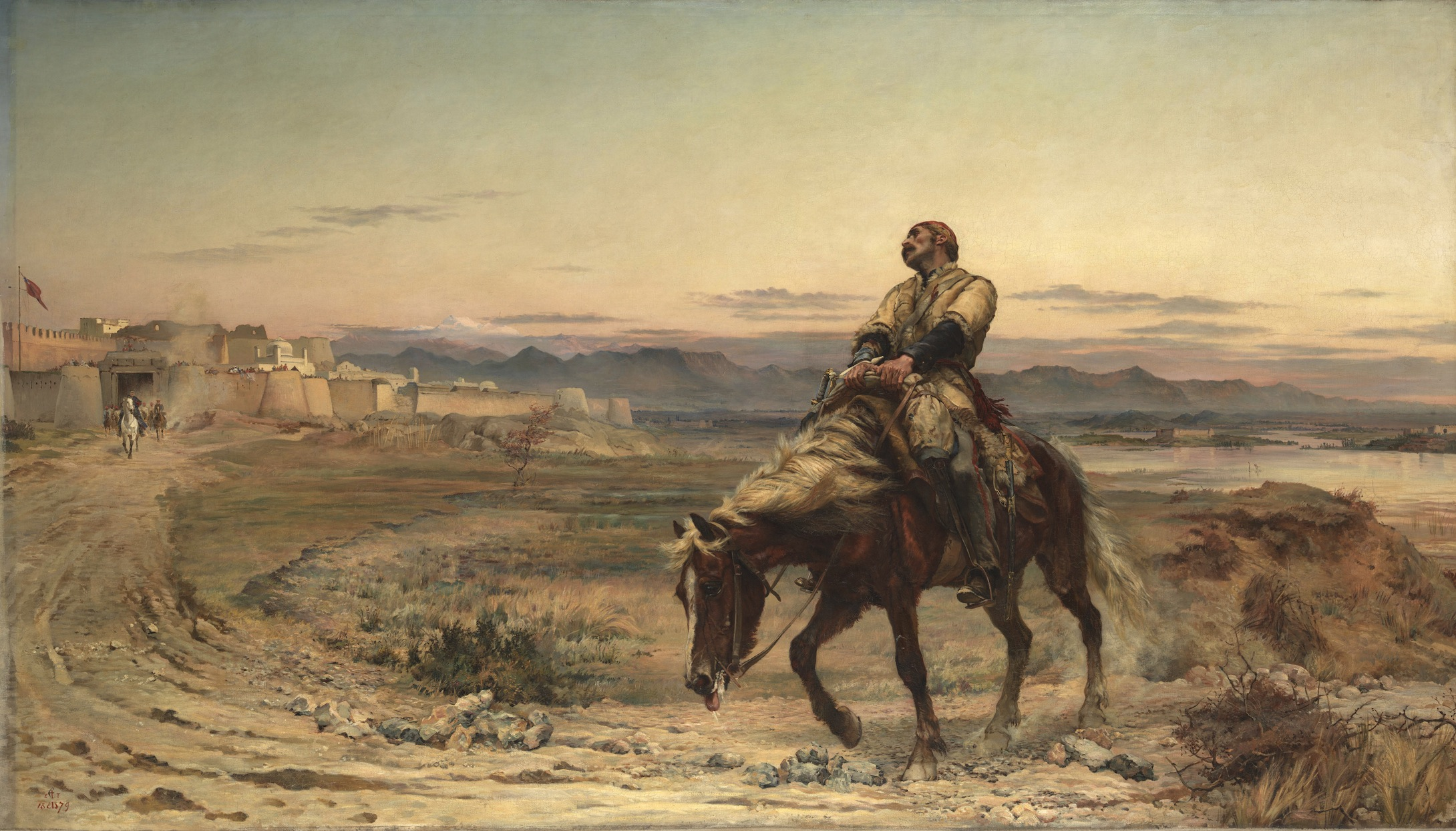 'Remnants of an Army' by Elizabeth Butler portraying William Brydon arriving at the gates of Jalalabad as the only survivor of a 16,500 strong evacuation from Kabul in January 1842. This is a better copy of a file in Commons (this image is in the public domain due to its age).